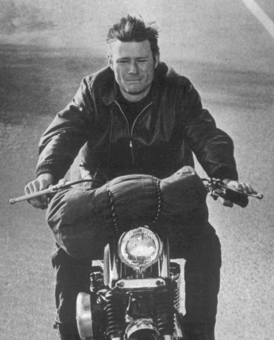 Photo of Michael Parks as Jim Bronson from the television program Then Came Bronson.